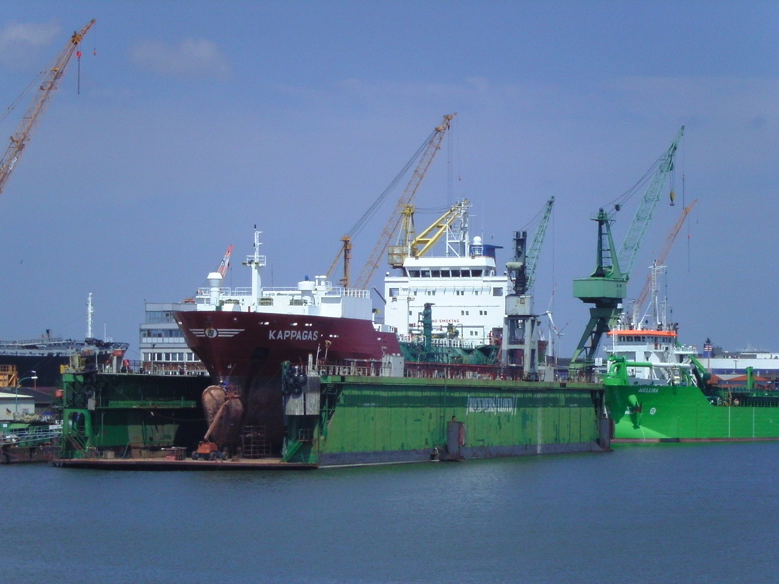 Der Liquid Petroleum Gas (LPG) tanker Kappagas in the floating drydock of Rickmers Lloyd in Bremerhaven